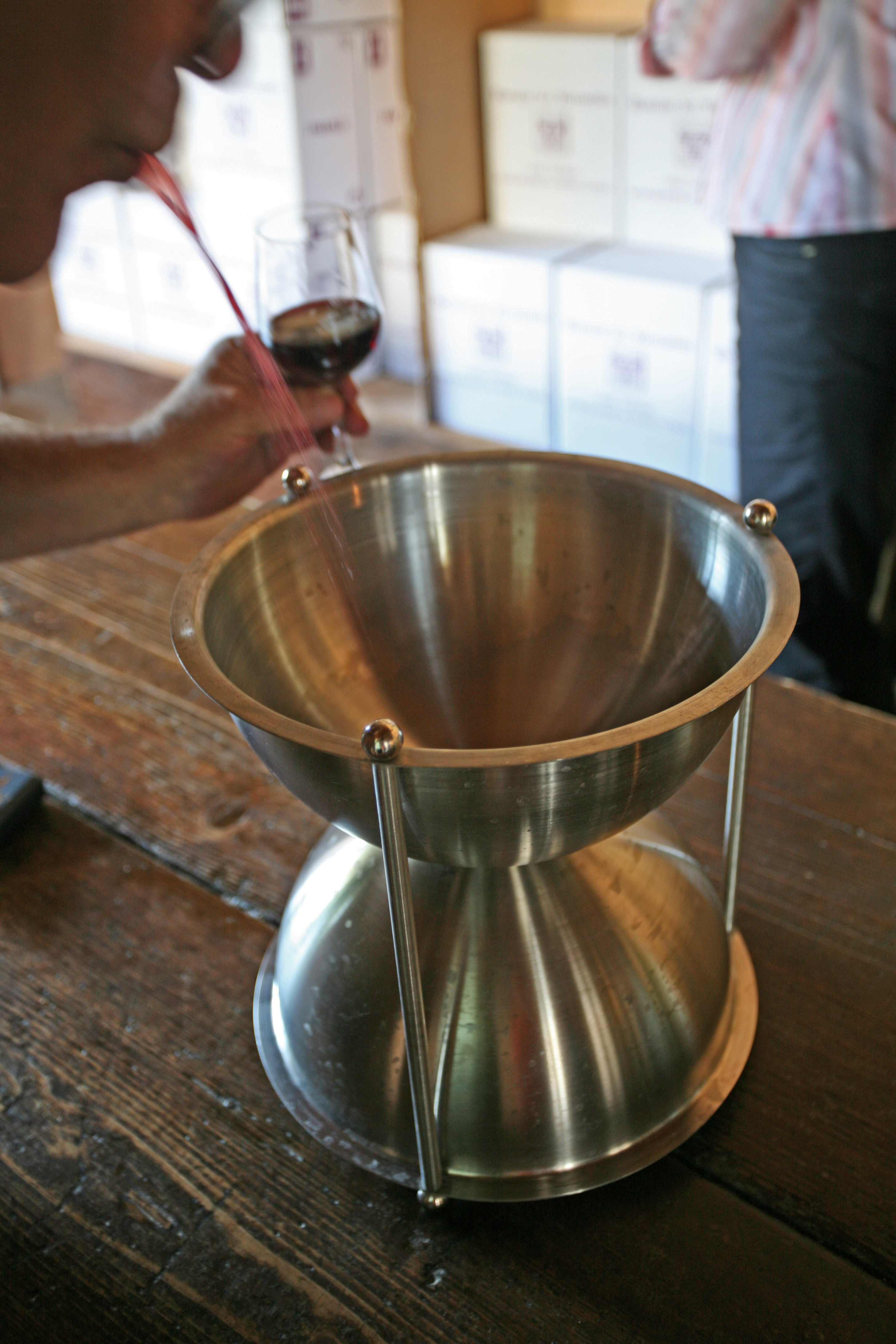 Using spittoon at a wine tasting